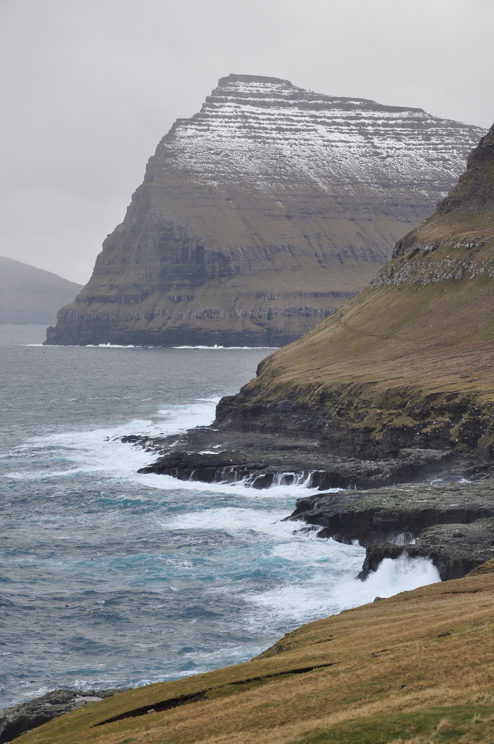 Faroe Islands, eastern shore of Viđoy with Talvborđ (557 m)